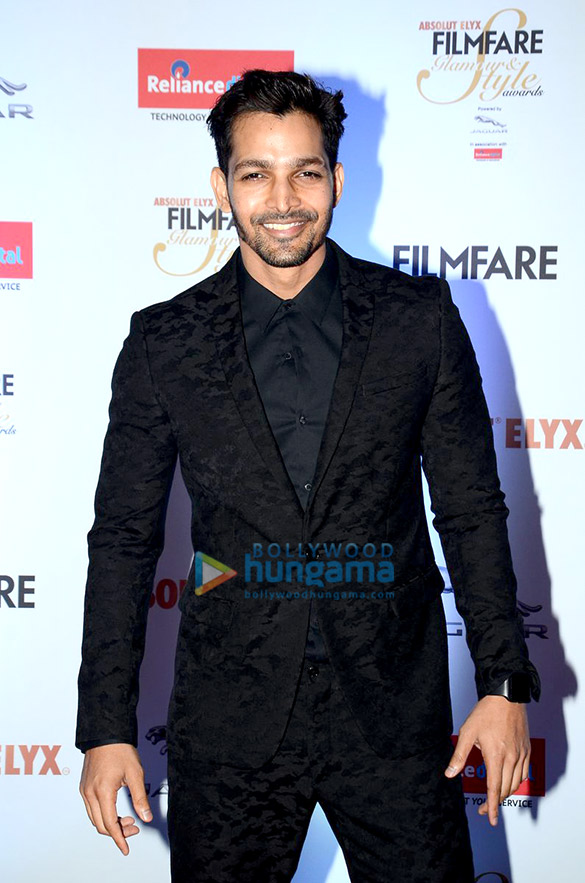 Rane gracing ‘Filmfare Glamour & Style Awards 2016’